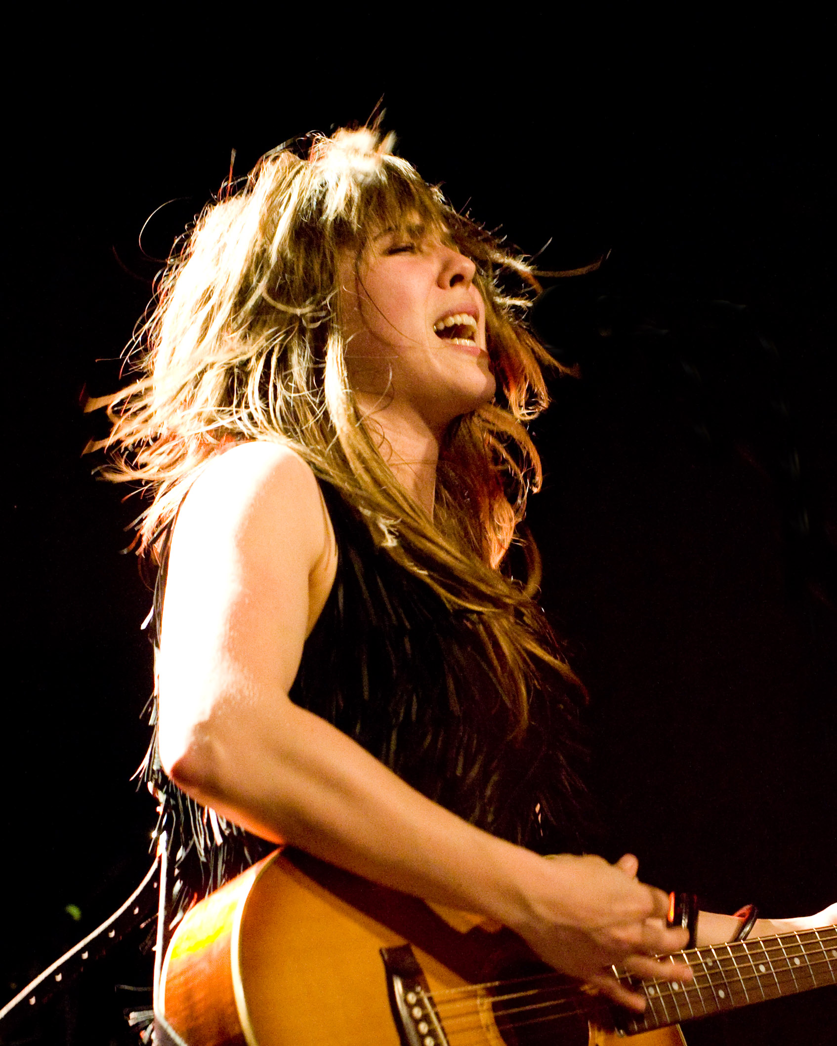 Serena Ryder performing at Showbox, Seattle 4-26-09